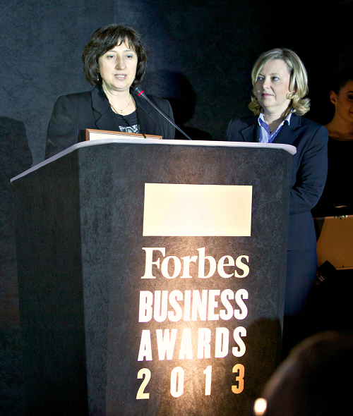 Мариана Маркова приема наградата на Форбс България в категорията "качество на услугите" през 2013г.